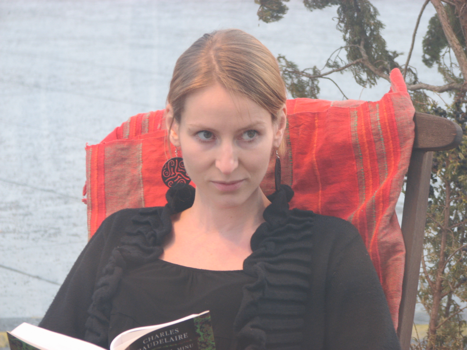 Estonian film director Marianne Kõrver reading Charles Baudelaire's book